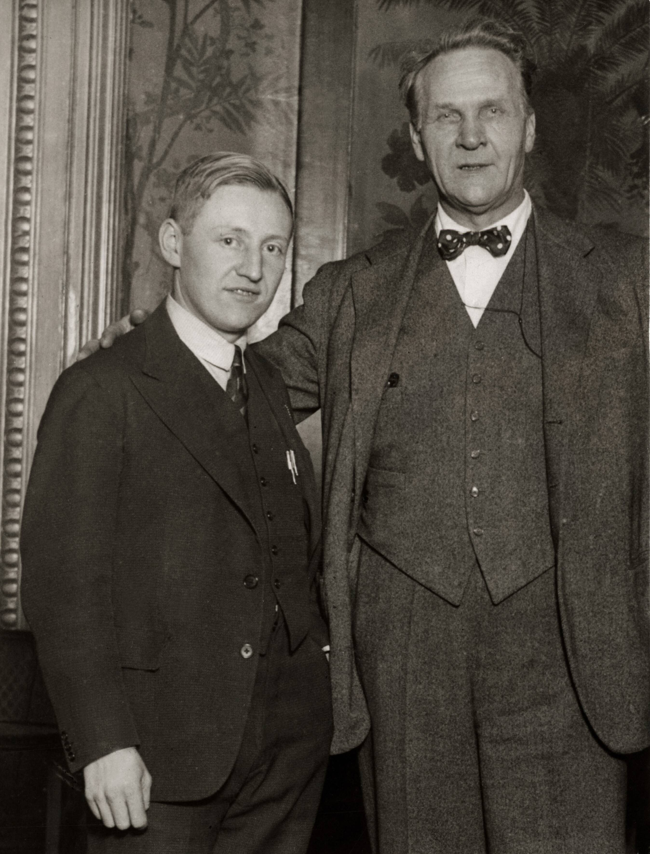 Hungarian violinist and composer Zoltán Székely and Russian opera singer Feodor Chaliapin. Photograph from 1931